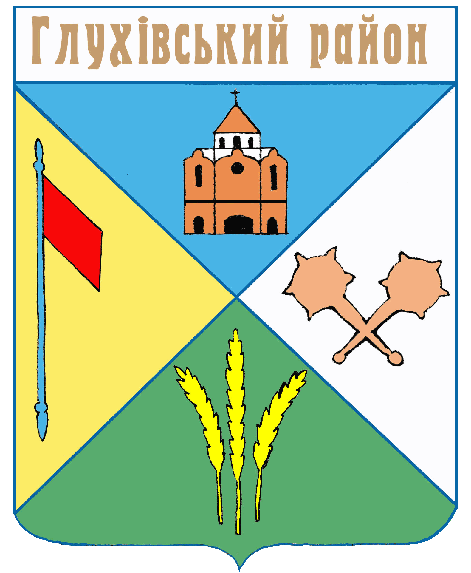 Coats of arms of Hlukhivskyi district (Ukraine)